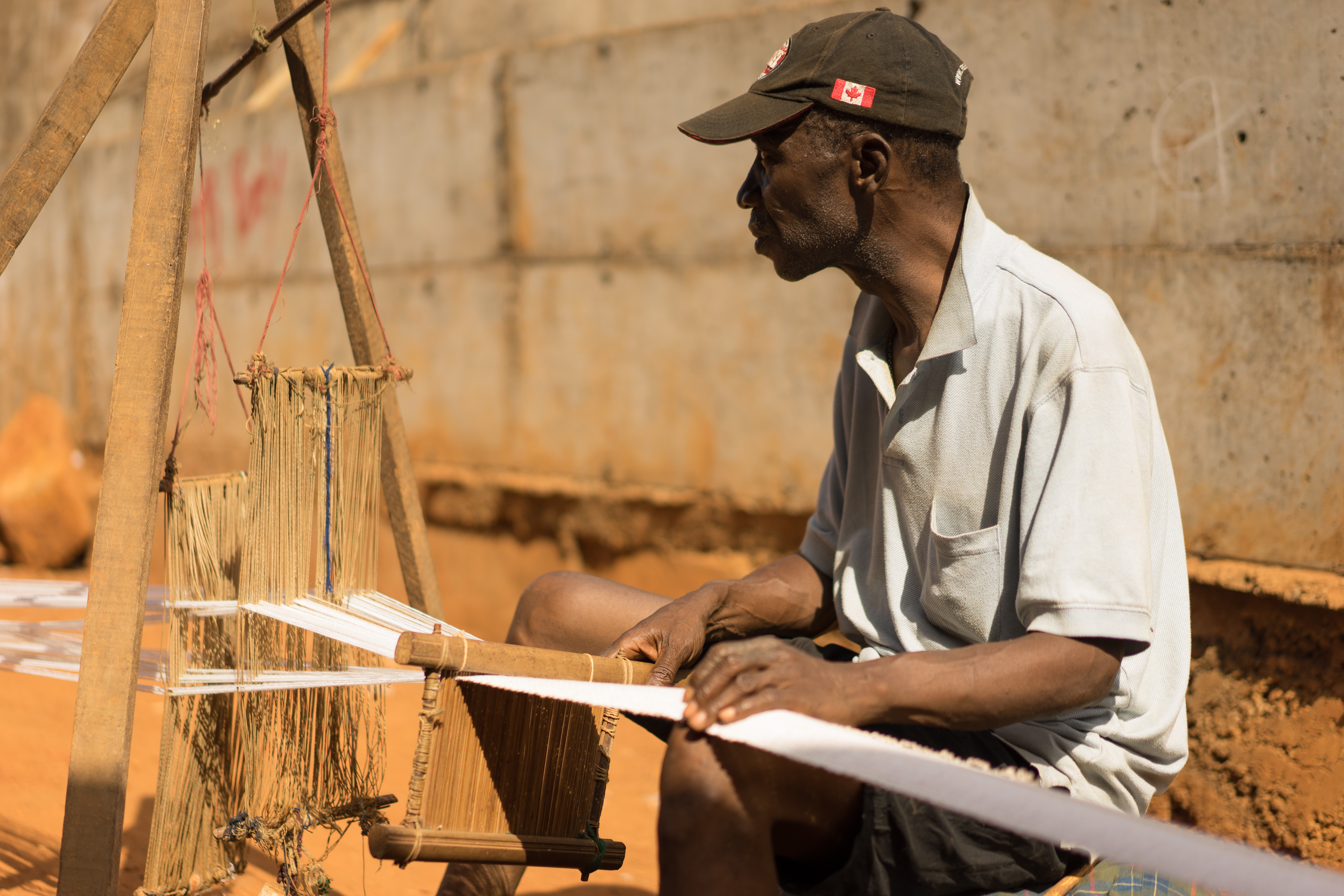 Worker on loom making country cotton, Sierra Leone. This is an image of "African people at work" from Sierra Leone